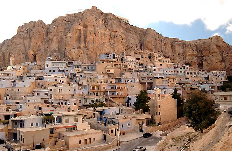 This file was transfered from . The original file description page is (was) here. Maaloula (photo Gérard GRANDJEAN) 01.jpg (29 juillet 2005 à 19:21) . . Utilisateur:Aboumael (Aboumael) (Discussion Utilisateur:Aboumael (Discuter) ) . . 750x489 (78535 octets) (Maaloula (photo Gérard GRANDJEAN))